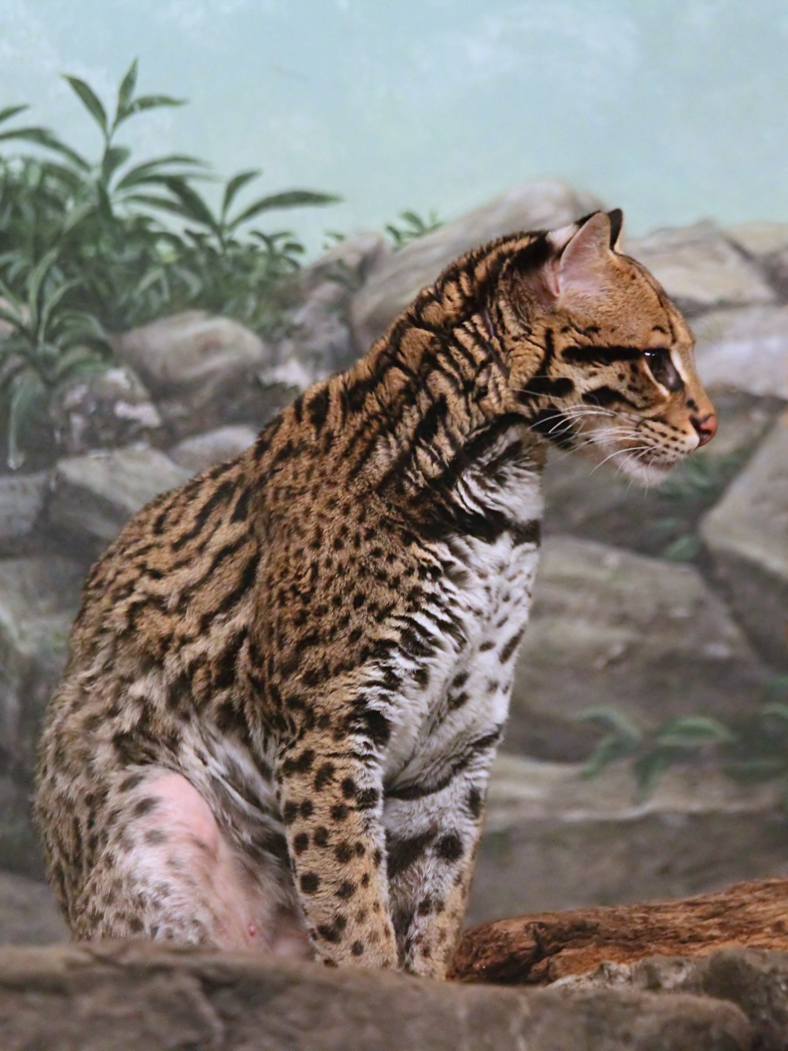 Ocelot (Leopardus pardalis) - taken at the Cincinnati Zoo. Photo by Greg Hume